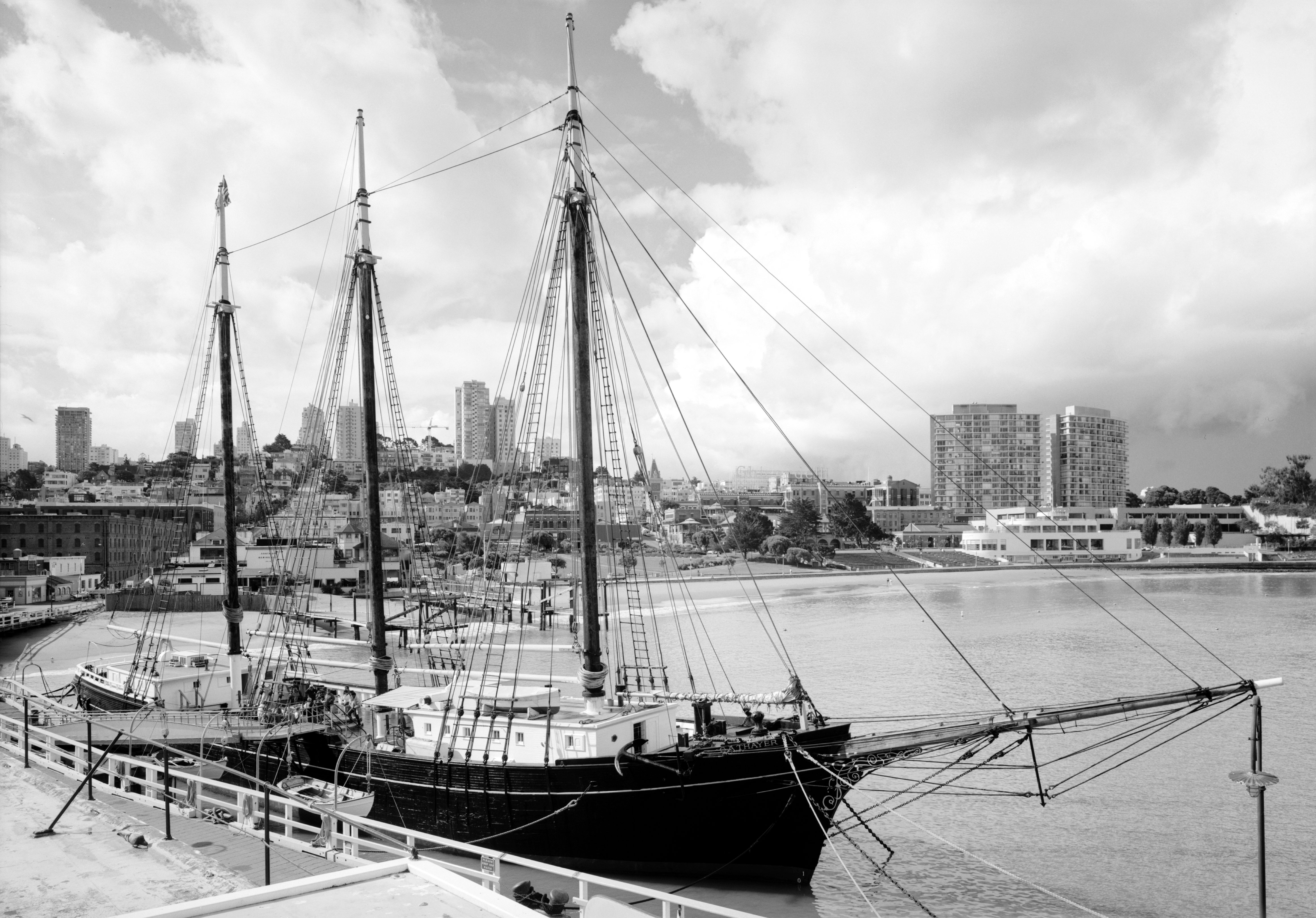 Schooner C.A. Thayer, Hyde Street Pier, San Francisco, San Francisco County, CA View toward vessel from off starboard bow. HAER CAL,38-SANFRA,199-3 Photo taken April, 1988. Photographer: Jet Lowe